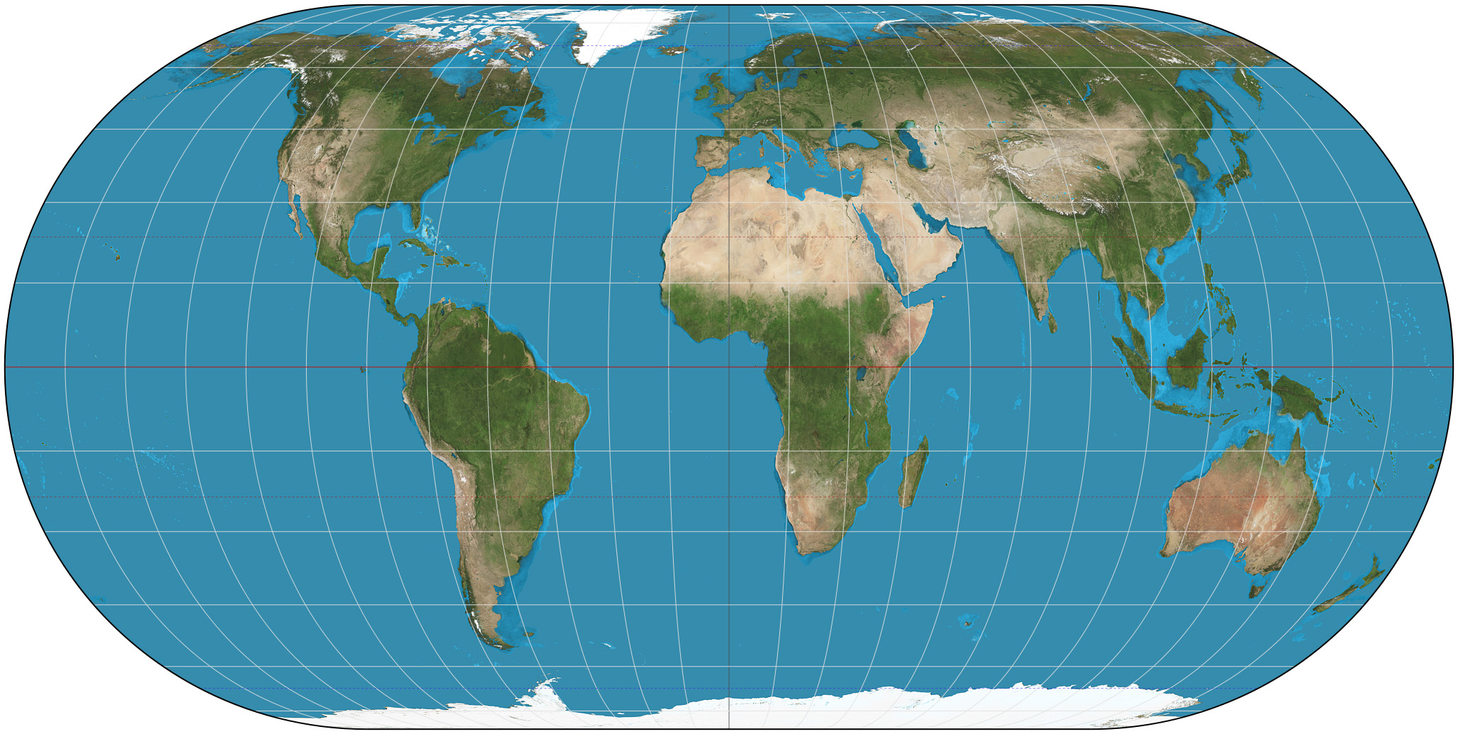 The world on Eckert IV projection. 15° graticule. Imagery is a derivative of NASA’s Blue Marble summer month composite with oceans lightened to enhance legibility and contrast. Image created with the Geocart map projection software.